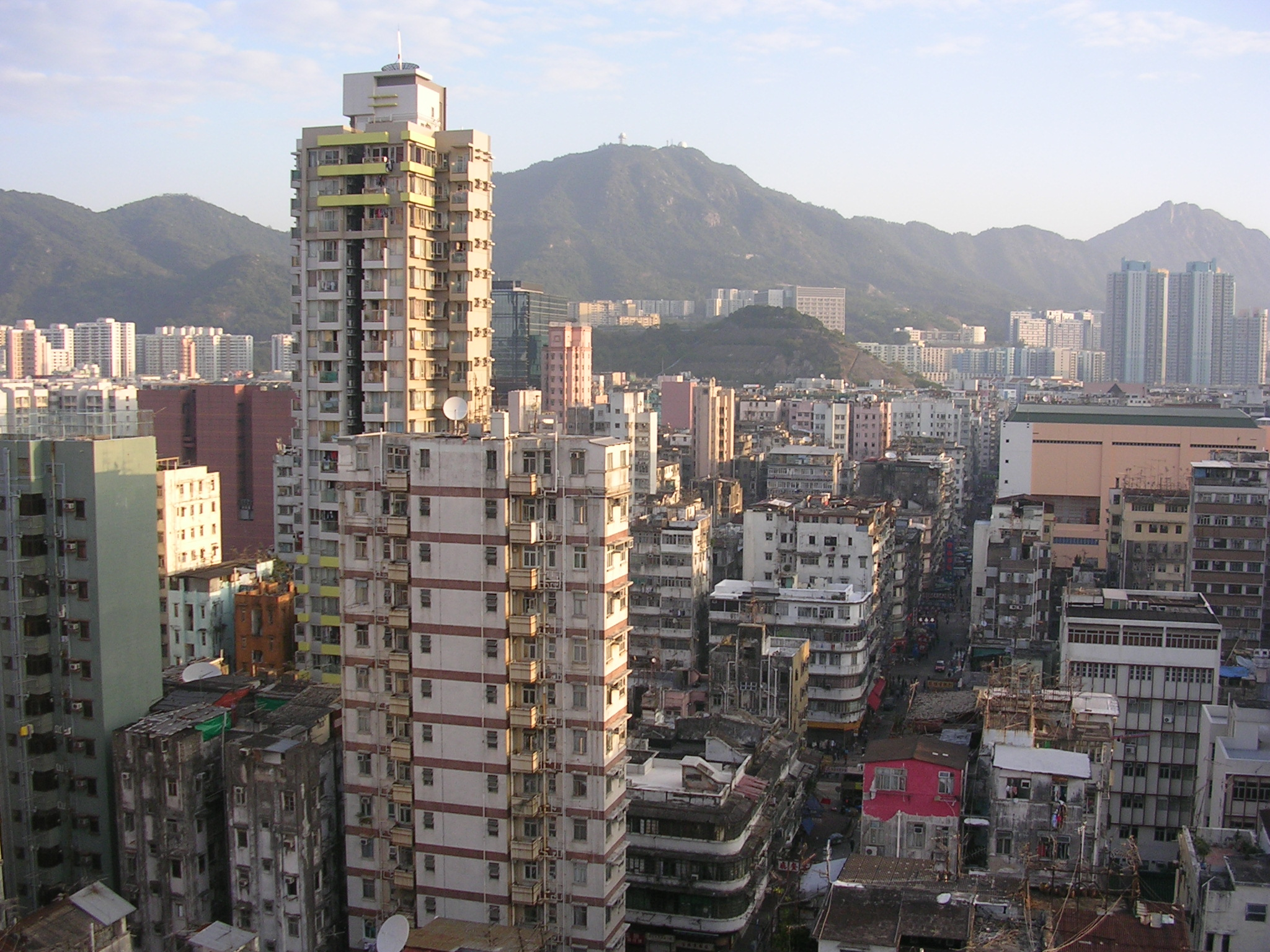 View of Sham Shui Po (深水埗), Hong Kong from the top of a skyscraper.